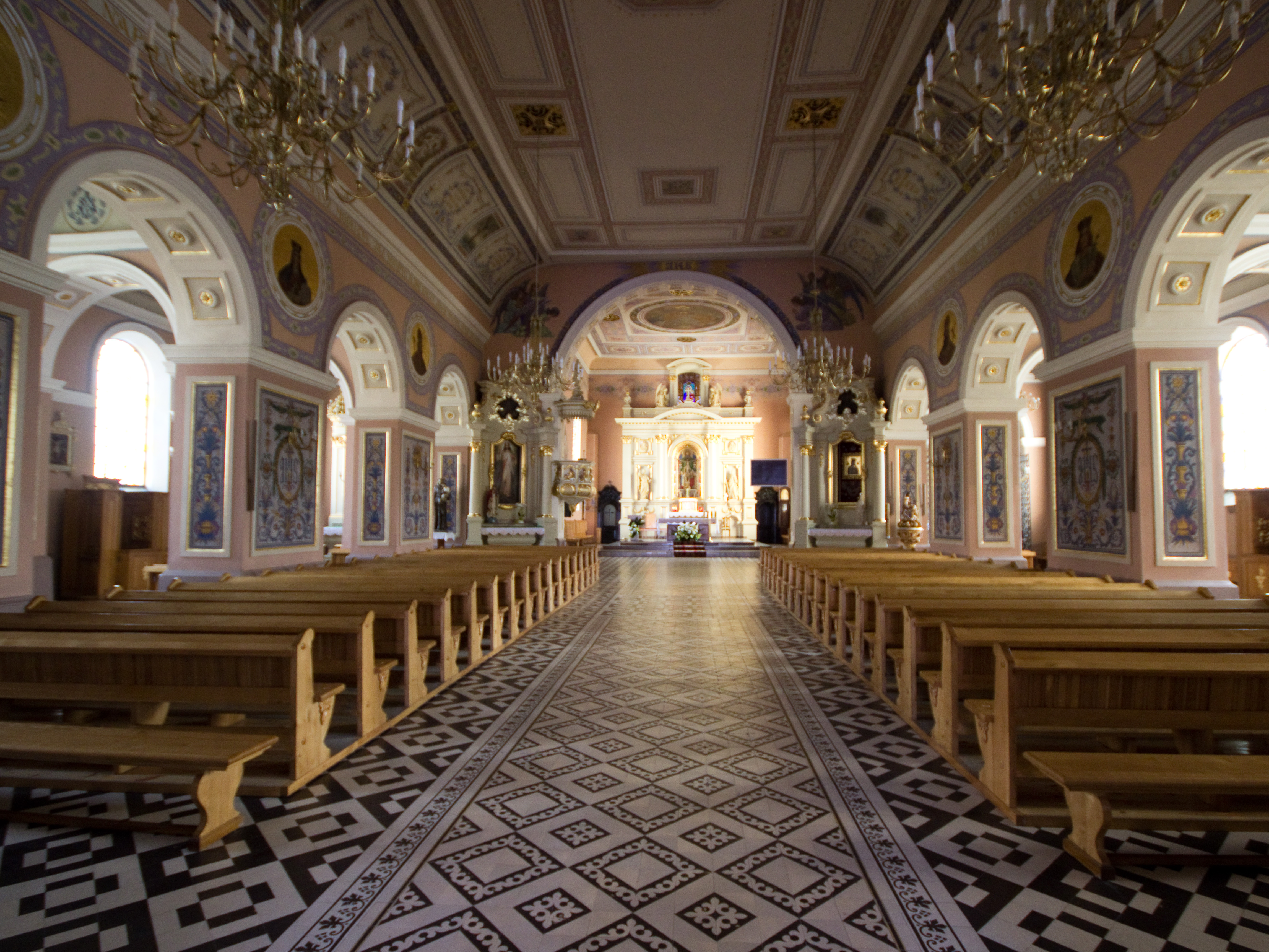 Mława, gmina miejska, powiat mławski, Masovian Voivodeship